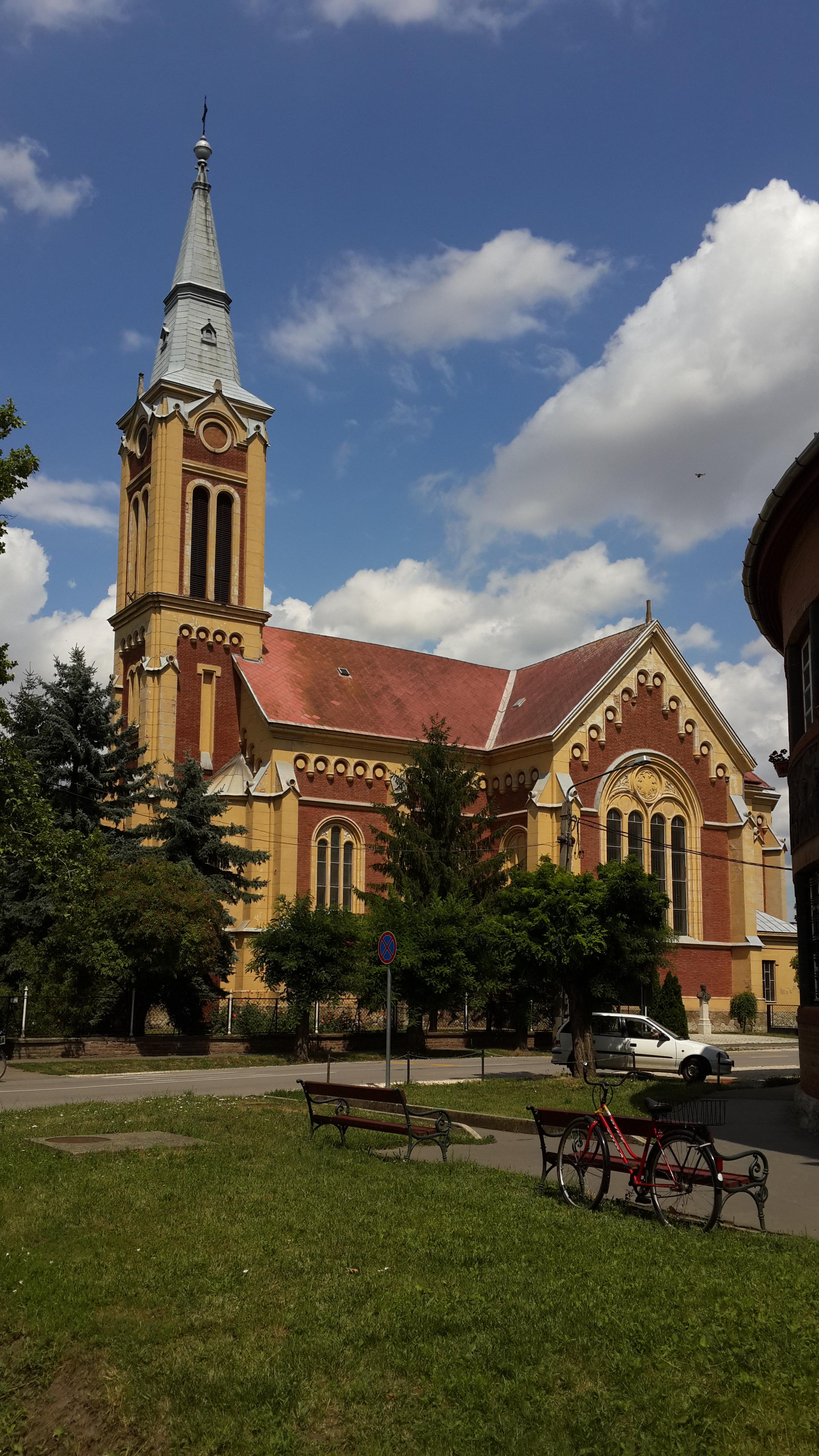 In Karsag Római katolikus templom, azonosító -2106. - Jász-Nagykun-Szolnok m., Karcag, Széchenyi I. sugárút 2.